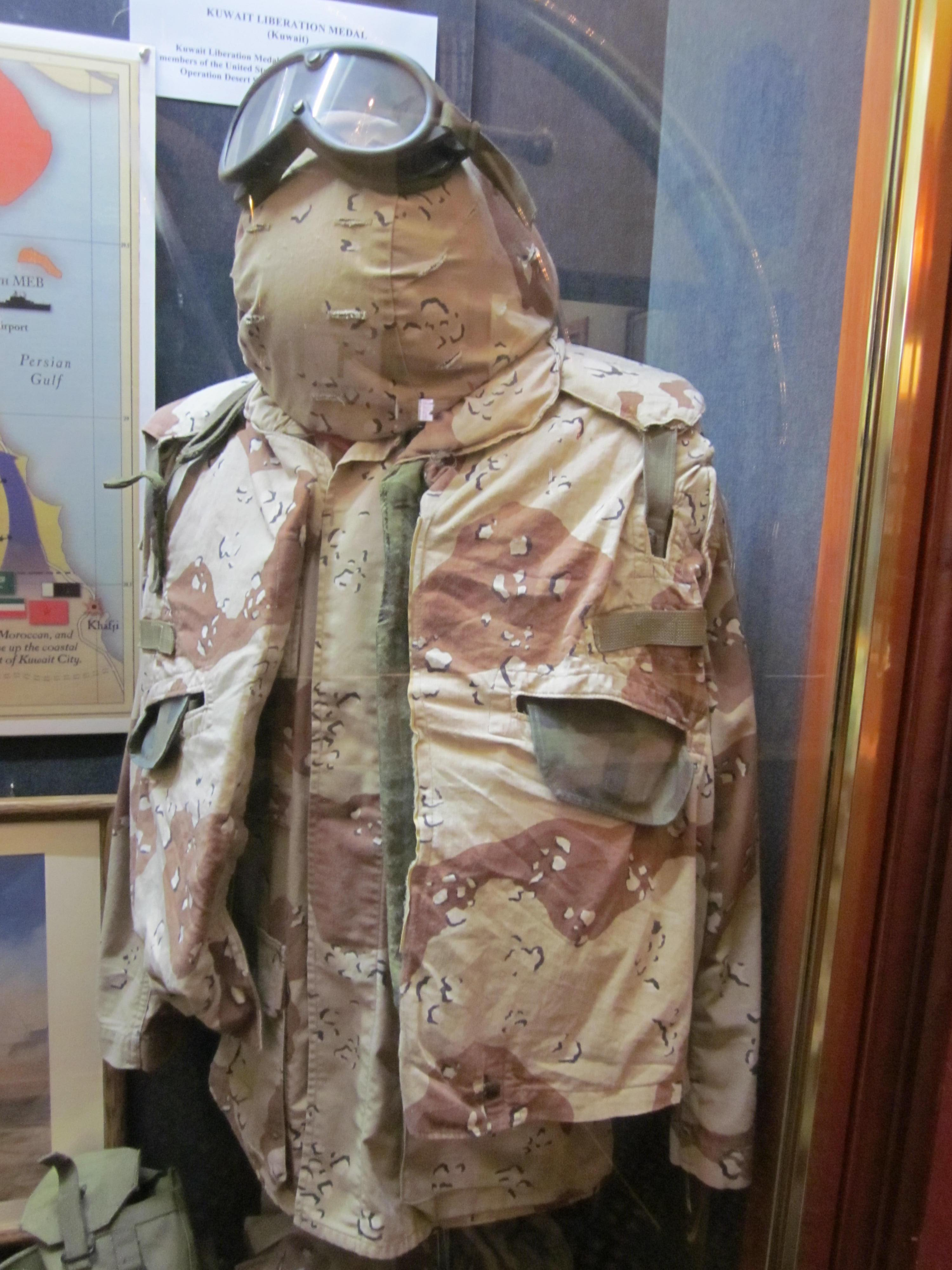 U.S. Marine Corps Gulf War DBDU on display at the Marines' Memorial Hotel in San Francisco, California.